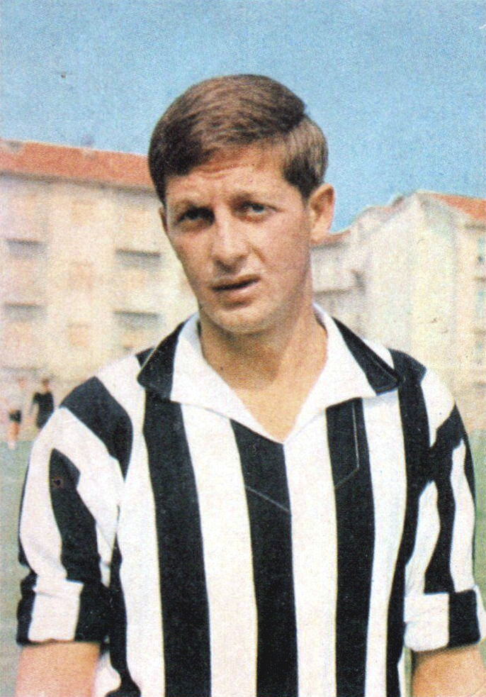 Italian footballer Giovanni Sacco with Juventus F.C. in the 1964–65 season.